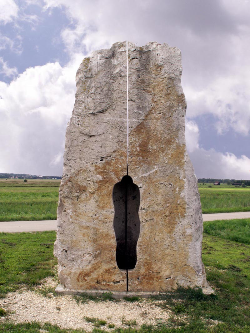 Skulpturenfeld Oggelshausen Bildhauersymposium 2000 Marit Lyckander, Ganz Innen VI